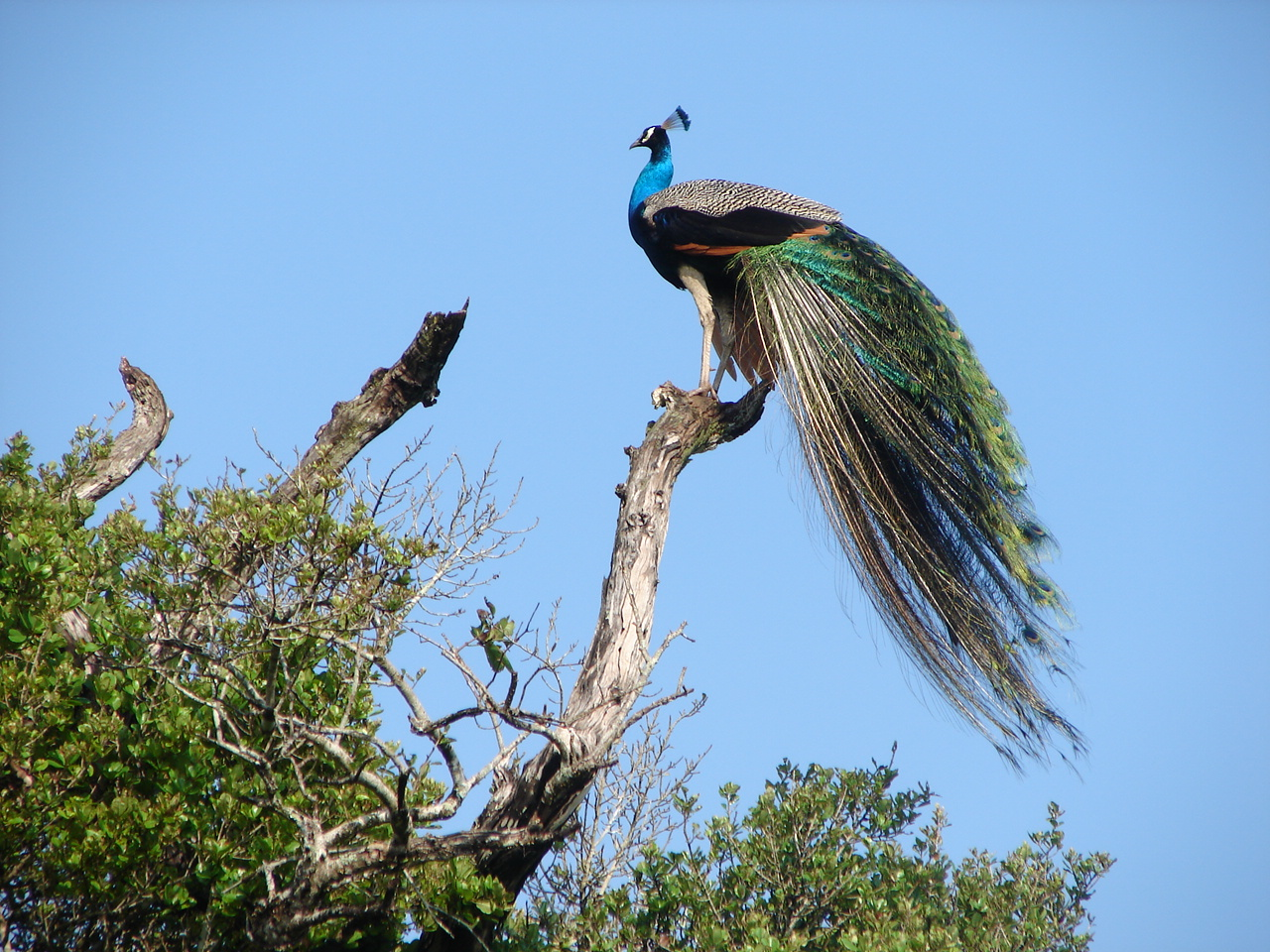 A peacock seen on a sunny morning in Wasgamuwa National Park, Sri Lanka